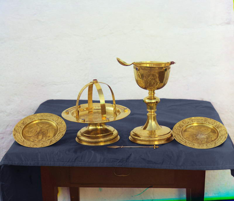 Orthodox liturgical implements, donation of Tsarevna Maria Alekseyevna. Dormition Monastery (photograph by Sergei Mikhailovich Prokudin-Gorskii, 1911)